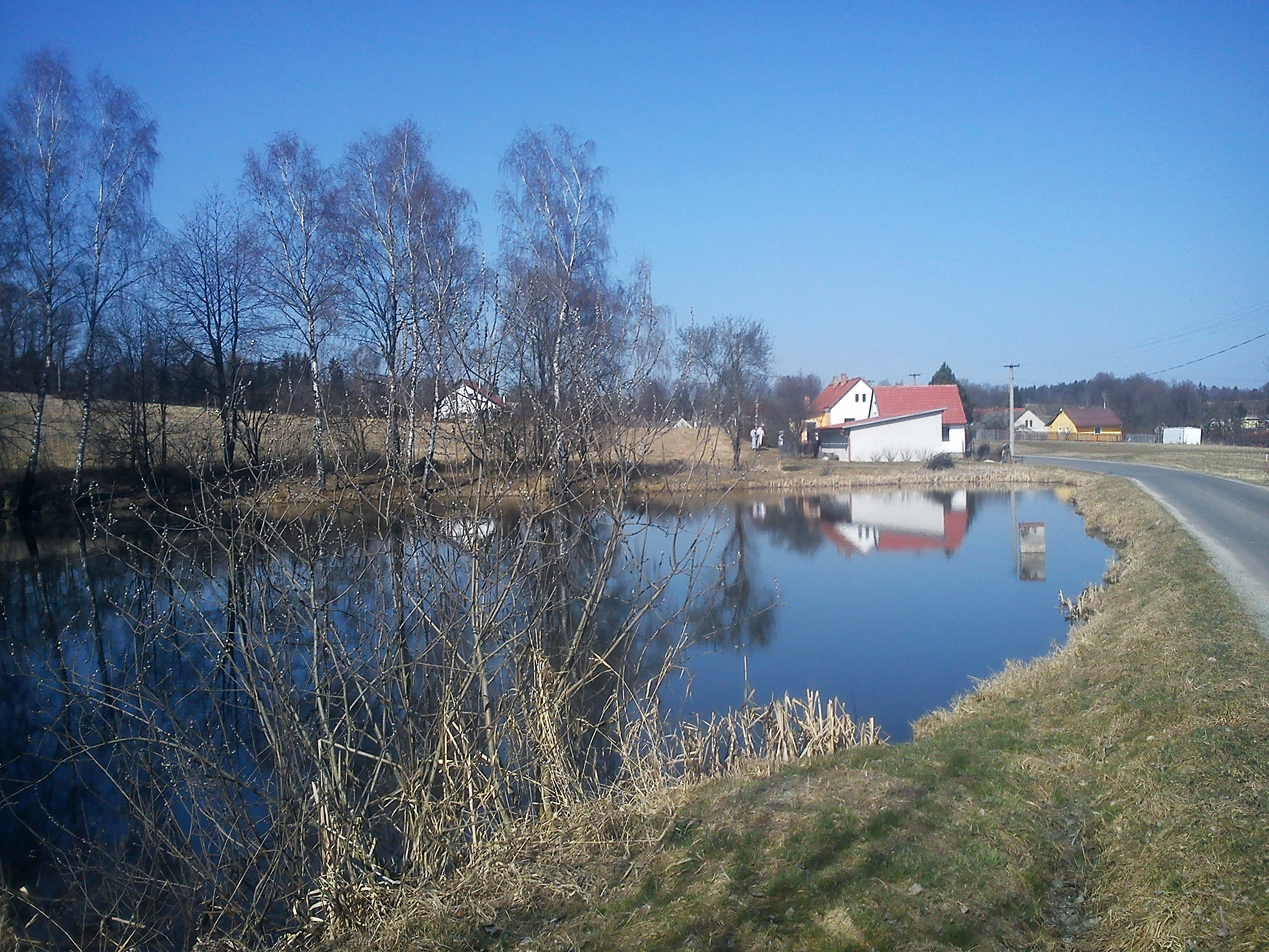 Pond in the village of Pořešín, part of the town of Kaplice, South Bohemian Region, Czech Republic.